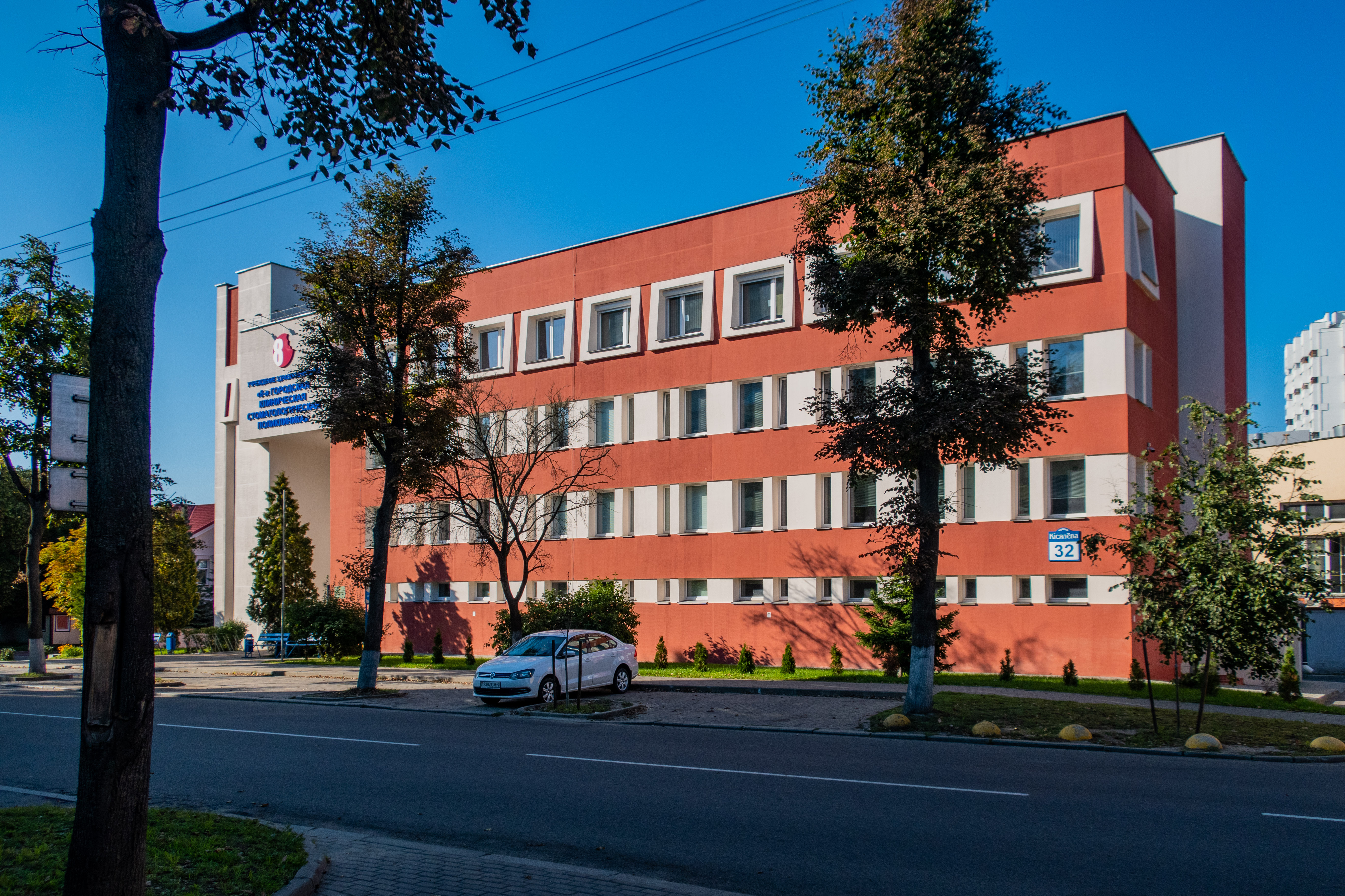 Kisialiova street. Minsk, Belarus